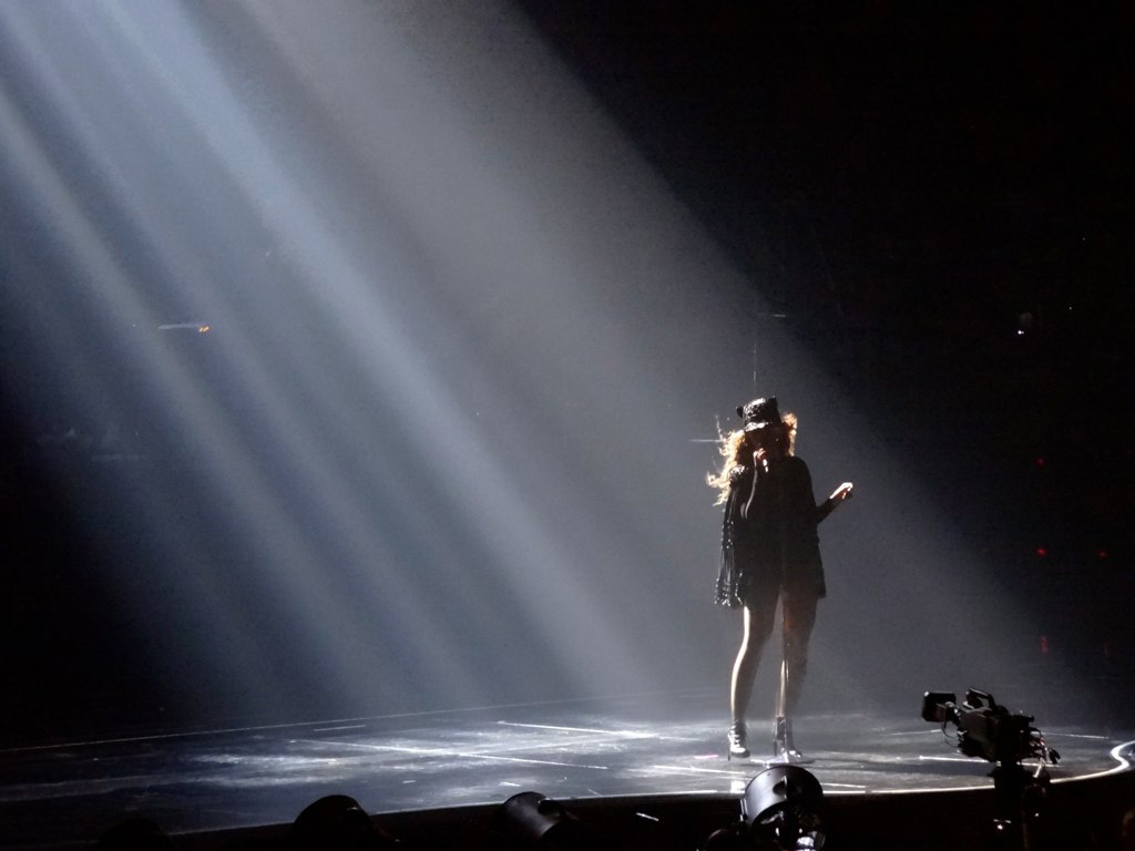 Beyonce performing "If I Were a Boy" in Montreal in 2013 during The Mrs. Carter Show World Tour.